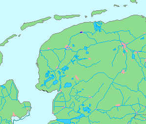 Map showing Kleindiep in Dokkum